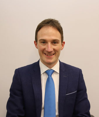 Photograph of Irish politician and sportsman Alan Dillon in 2020